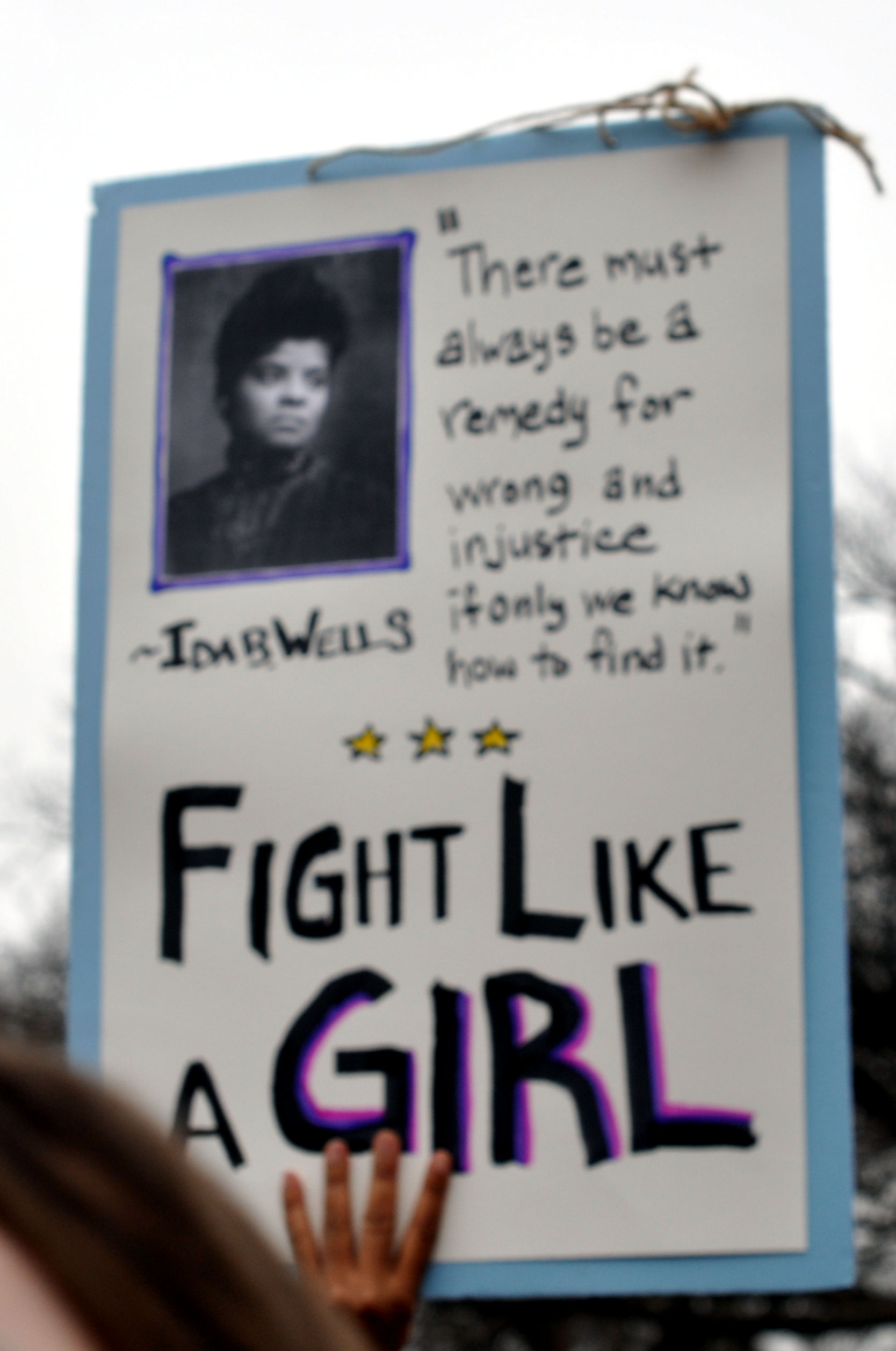 Women's March 0860